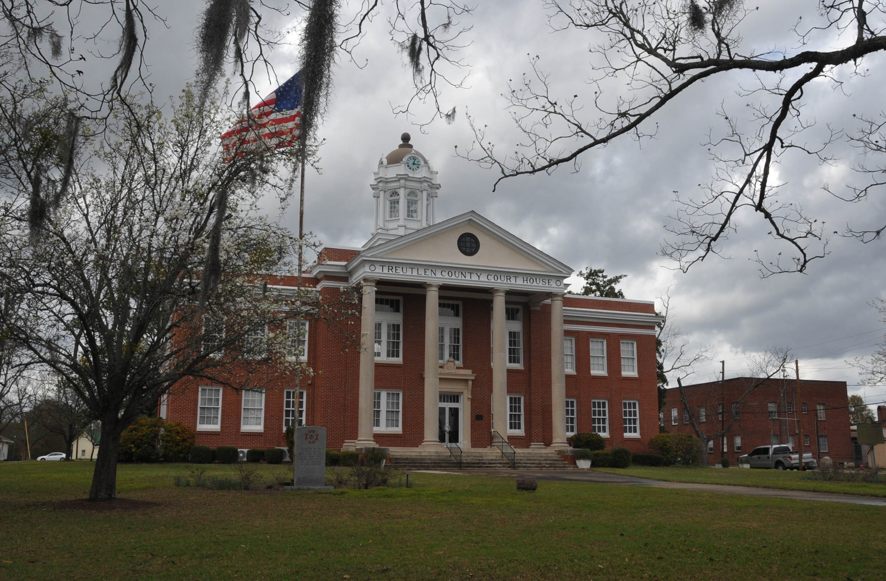 BUILT IN 1920. COUNTY WAS NAMED FOR A REVOLUTIONARY WAR GOVERNOR MURDERED BY TORIES IN ORANGEBURG, SOUTH CAROLINA